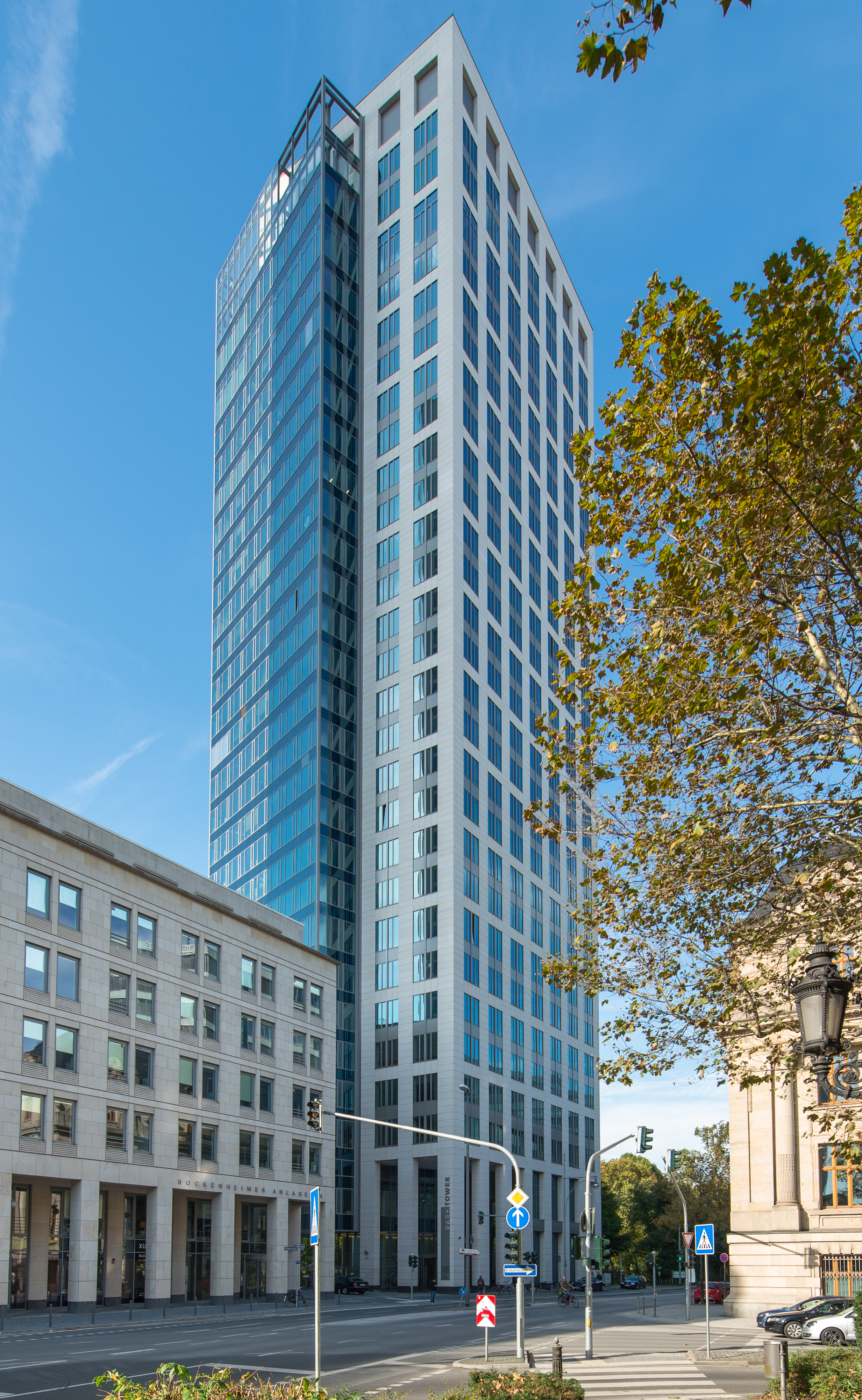 Frankfurt am Main, Park Tower (as seen from South-East). 115 meter tall office tower from 1972 (2007)